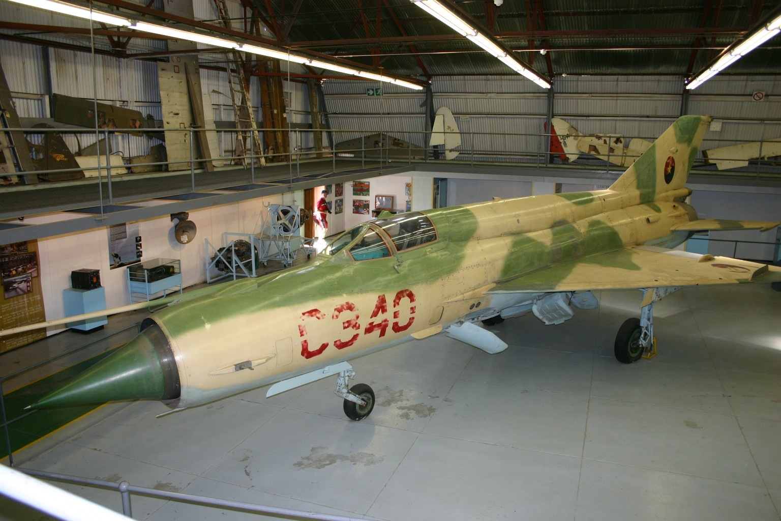 At AFB Swartkop